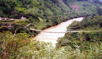 Hanging bridge of La Saquea, Yacuambi River, Zamora Chinchipe Province